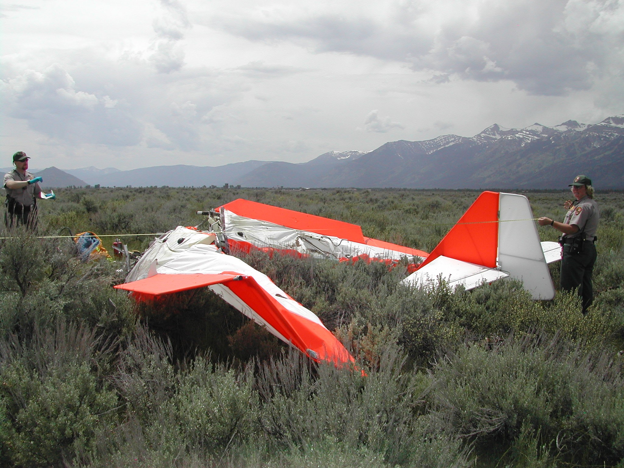 Wreckage of John T. Walton's experimental aircraft at Grand Teton National Park, Wyoming, United States. Taken by the National Park Service on June 27, 2005.